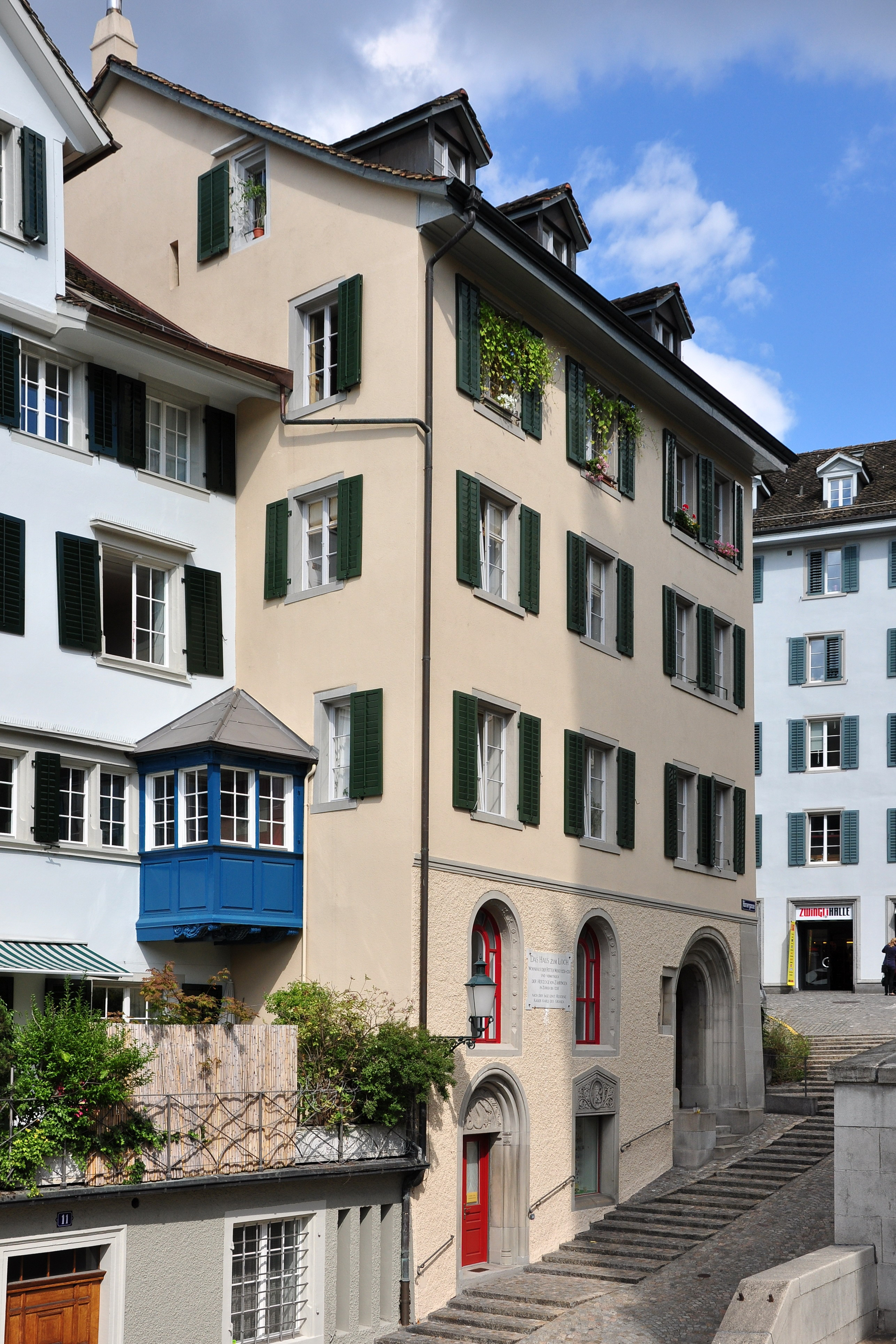 Zürich, Zwingli-Platz (Grossmünster) : «Haus zum Loch» (13th century), Wisso Knights home (1230-1350) and propably Dukes of Zähringen residence in Zürich.